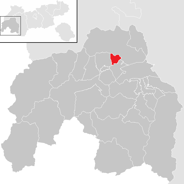 District Landeck